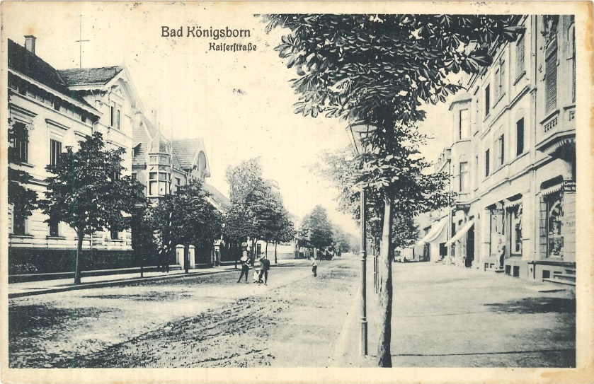 View of the Kaiserstr. (today's Friedrich-Ebert-Str.) in Bad Koenigsborn (today Unna-Koenigsborn) in the direction of Kamen, showing on the left houses no. 84-88, on the right houses no. 77-81